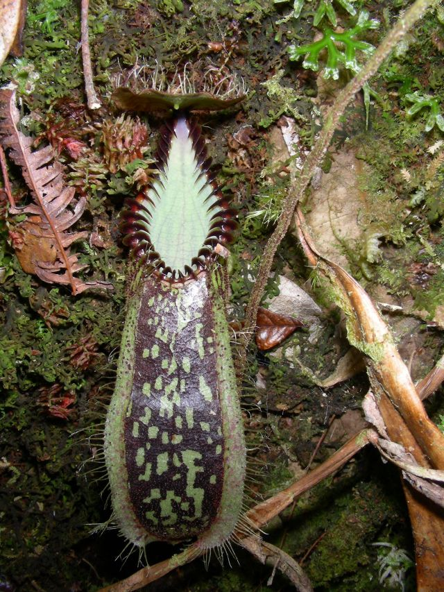 Nepenthes hamata, Sulawesi